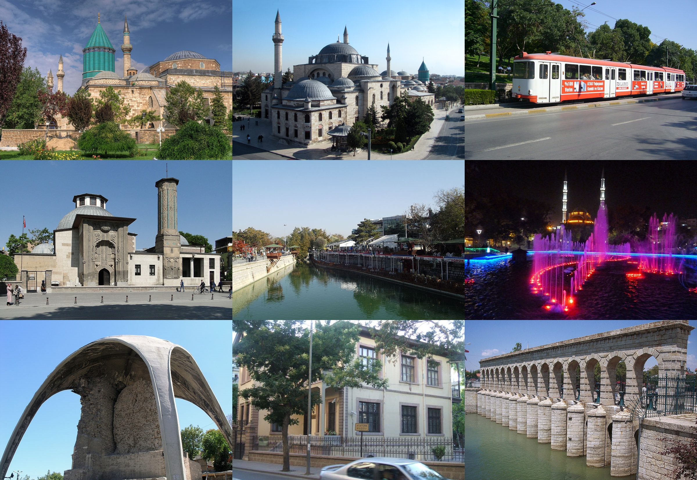 Right from the beginning: Mevlana Museum, Konya Selimiye Mosque, Alaaddin Hill, Ince Minaret Medrese, Meram Nature Park, Hacıveyiszade Mosque, Alaaddin Monument, Atatürk Museum and Taşköprü.